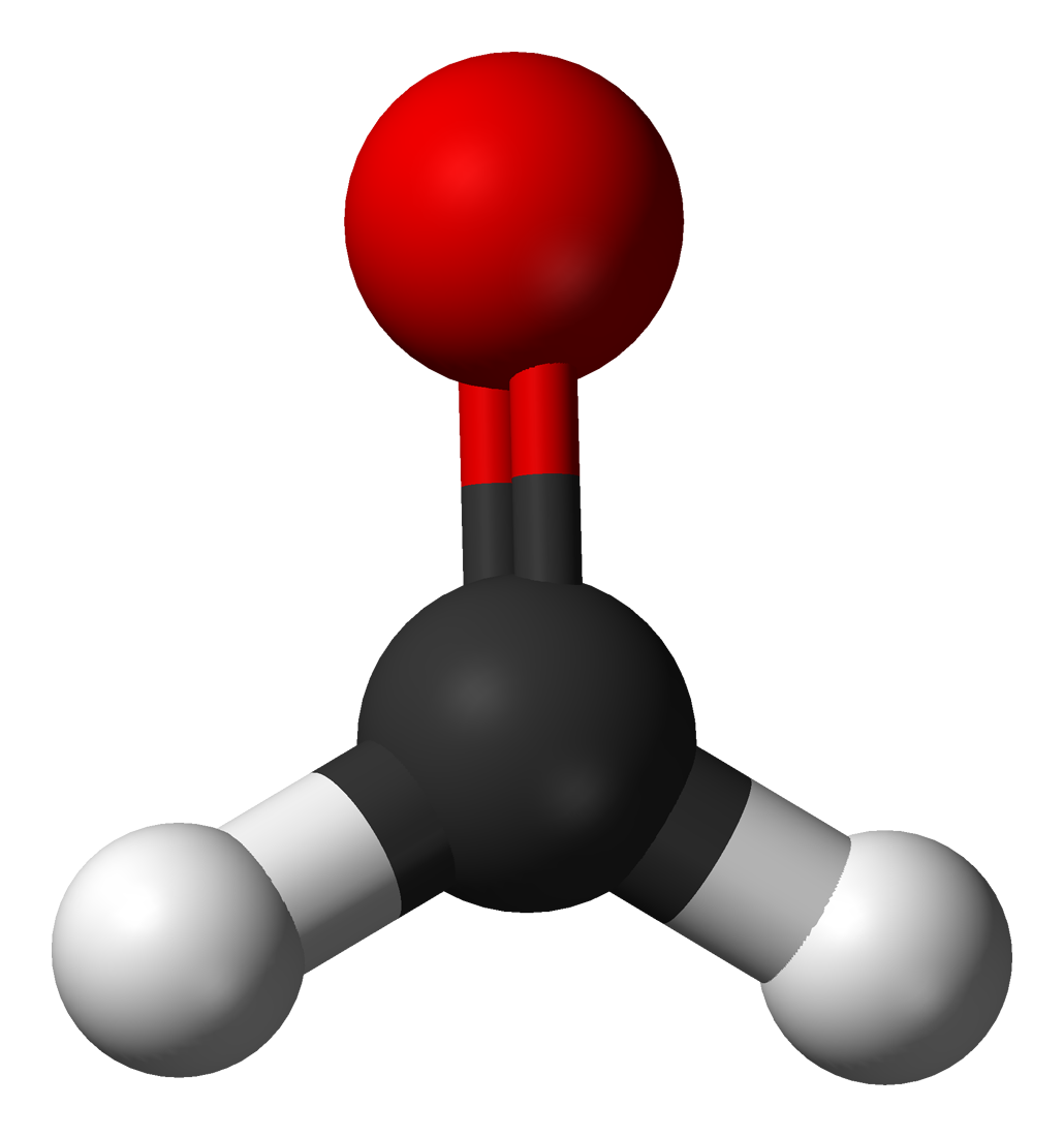 Ball-and-stick model of the formaldehyde molecule, H2CO. Structure calculated in Spartan '04 Student Edition using Hartree-Fock/6-31G*. Image generated in Accelrys DS Visualizer.